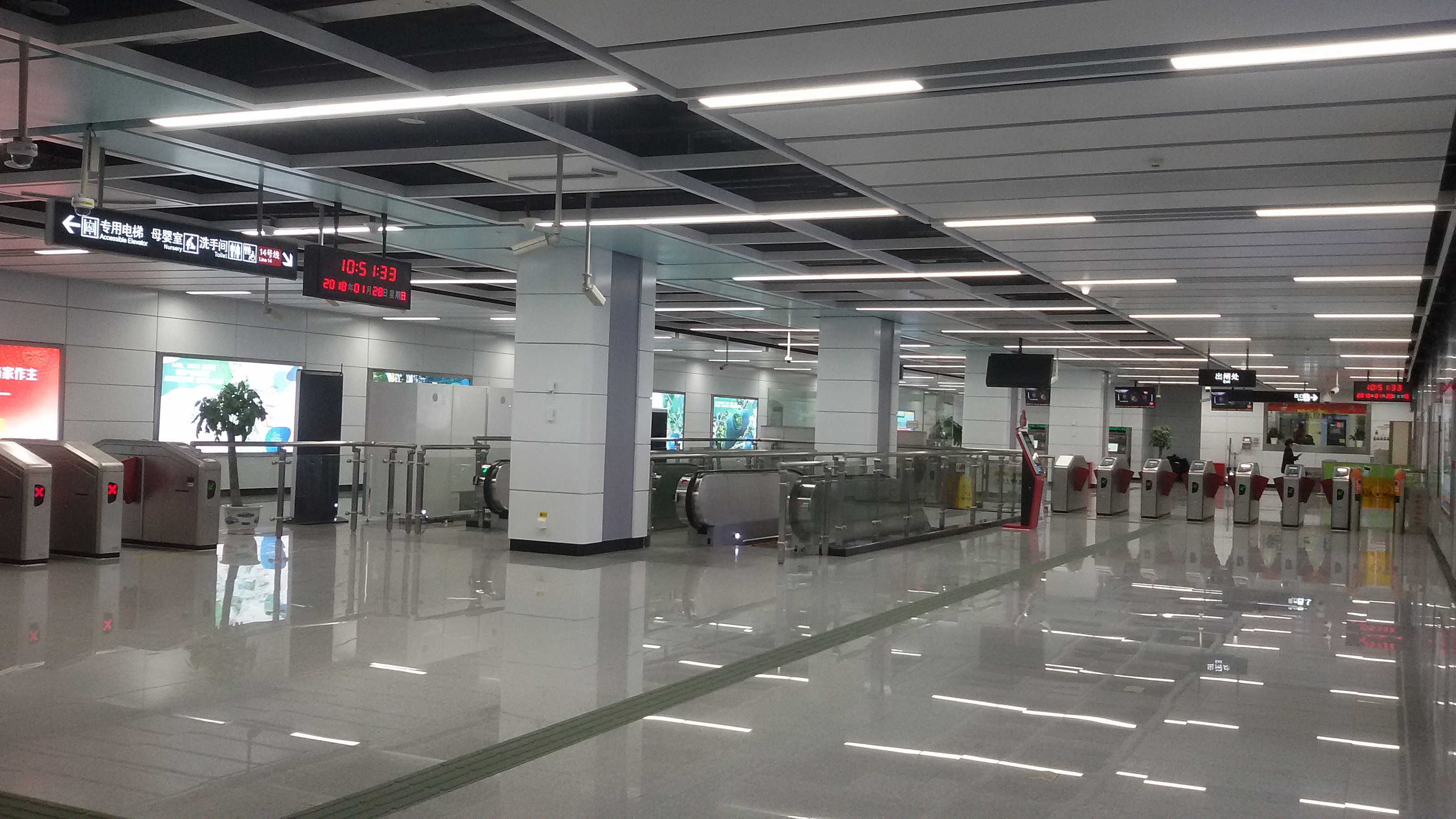 Station Concourse for Sino-Singapore Guangzhou Knowledge City Station in Guangzhou Metro.